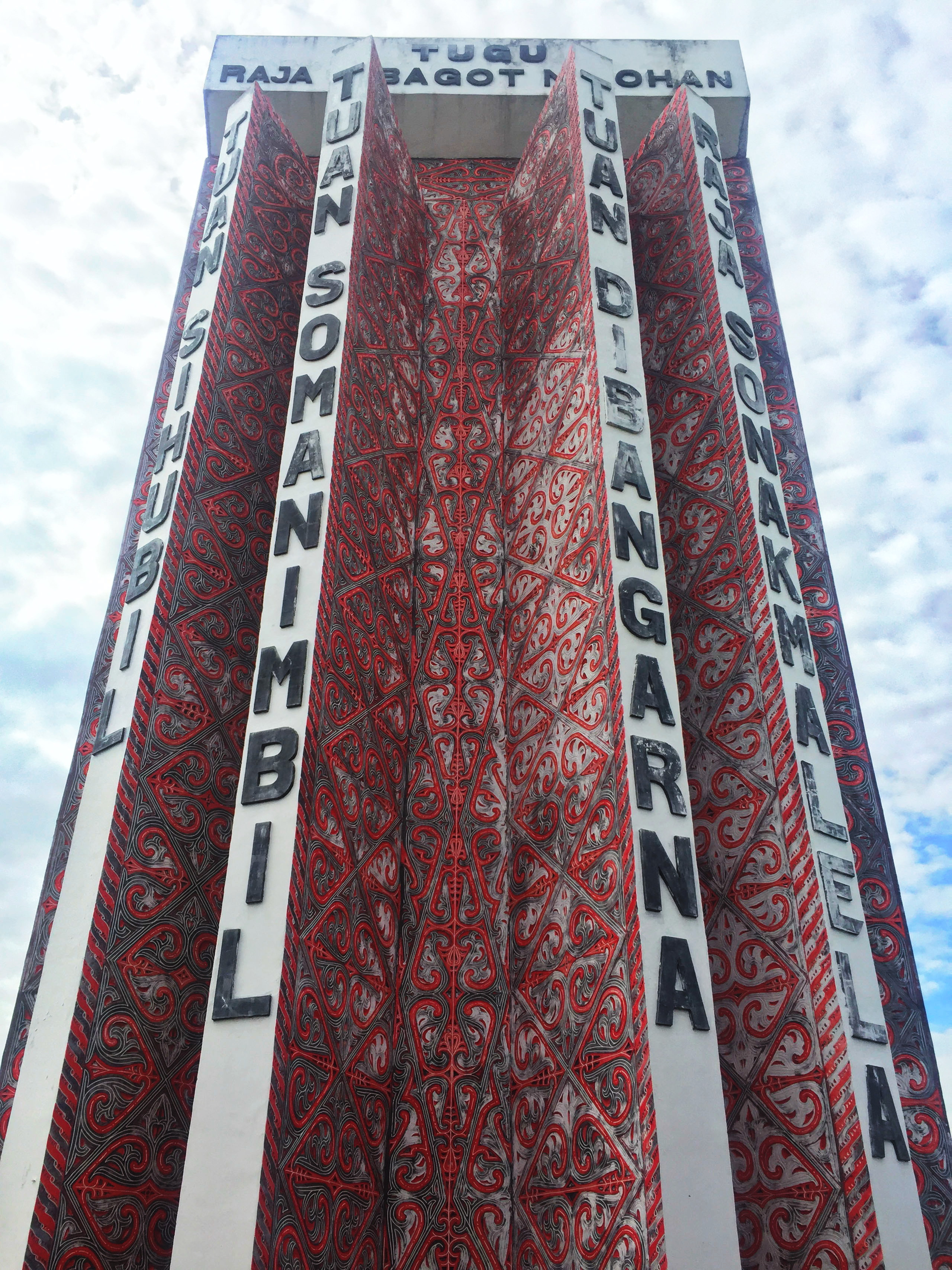 Monument of Raja Sibagot Nipohan (pohan) clan in Balige, Toba Samosir